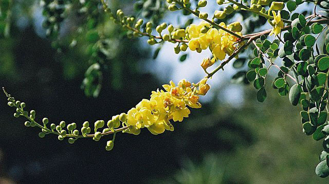 Native to southern Mexico, where it is also known as Tihuixtle. Desert Botanical Gardens, Phoenix. In context at